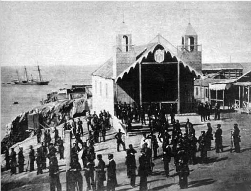 Spanish troops taking possession of the Chincha Islands, during the war of the same name, in 1864